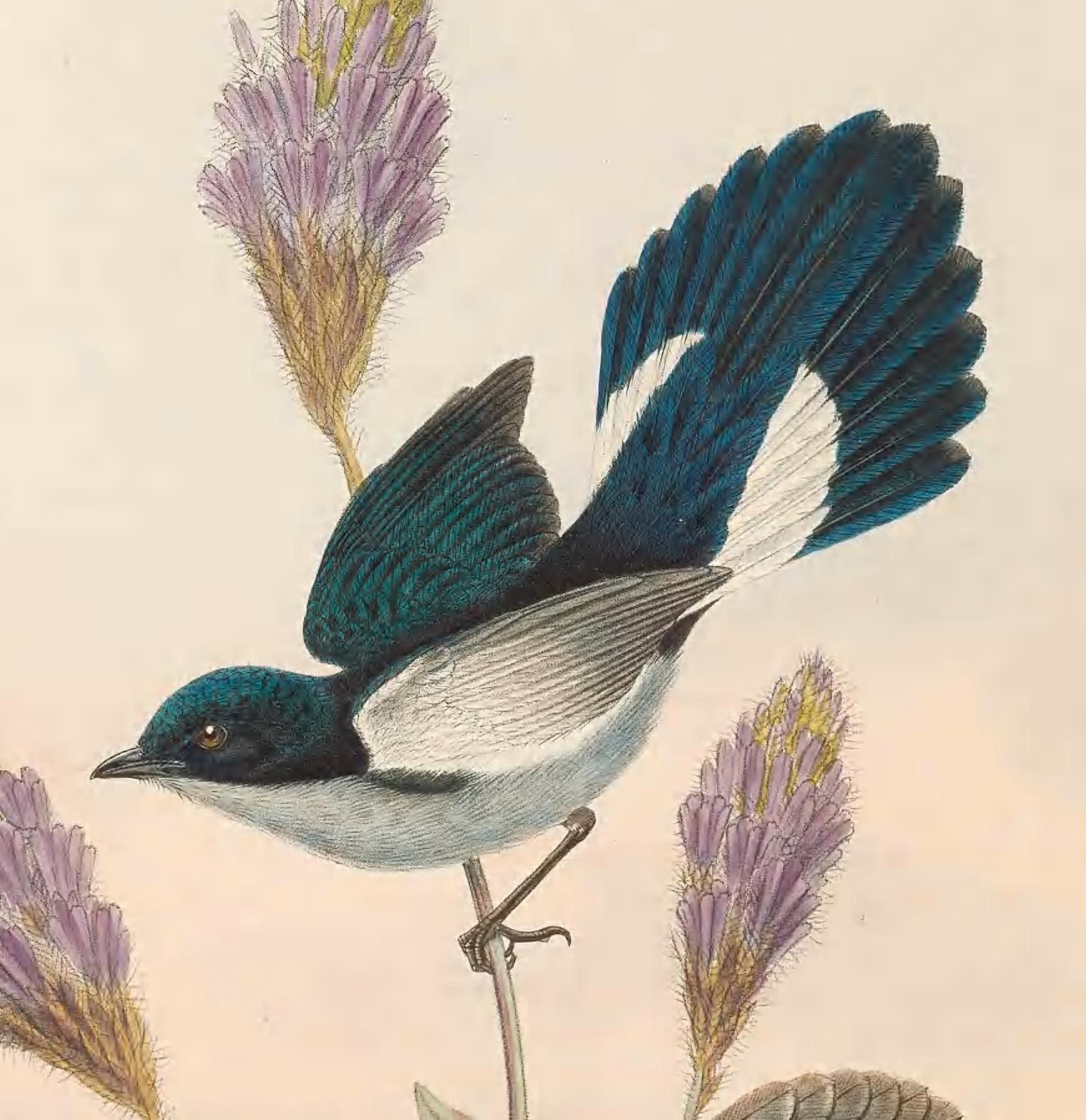 Pristorhamphus versteri = Melanocharis versteri in The birds of New Guinea and the adjacent Papuan islands, including many new species recently discovered in Australia. v.4. (Plate 10)